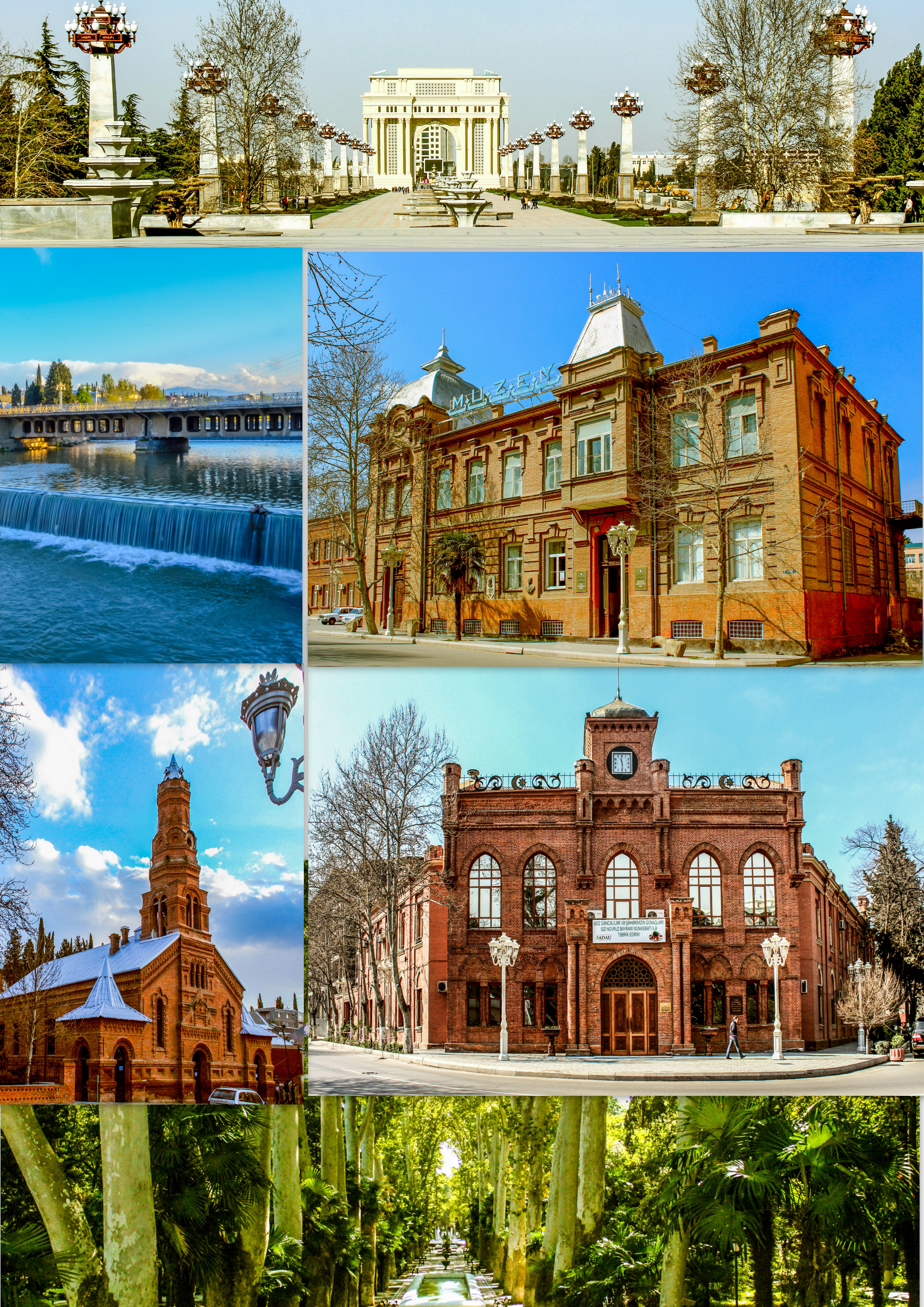 Montage of Ganja city 2016. Composition of these pictures: File:AXC parlamenti binası.jpg File:Gəncə lüteran kilsəsi.jpg File:Ganja History - Ethnography Museum building.jpg File:Gəncə Bulvarı.jpg File:Khans garden in Ganja 2.JPG File:Olimpiya parkı.jpg